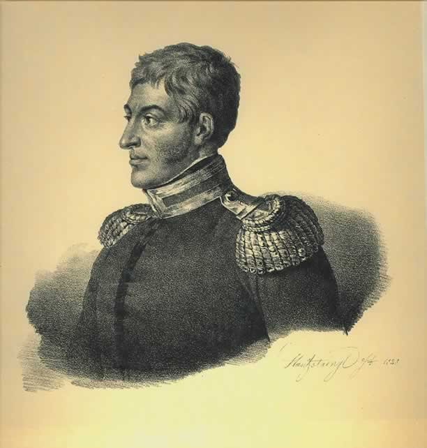 Frank Abney Hastings (1794-1828), British naval who took part in the Greek War of Independence (1821).